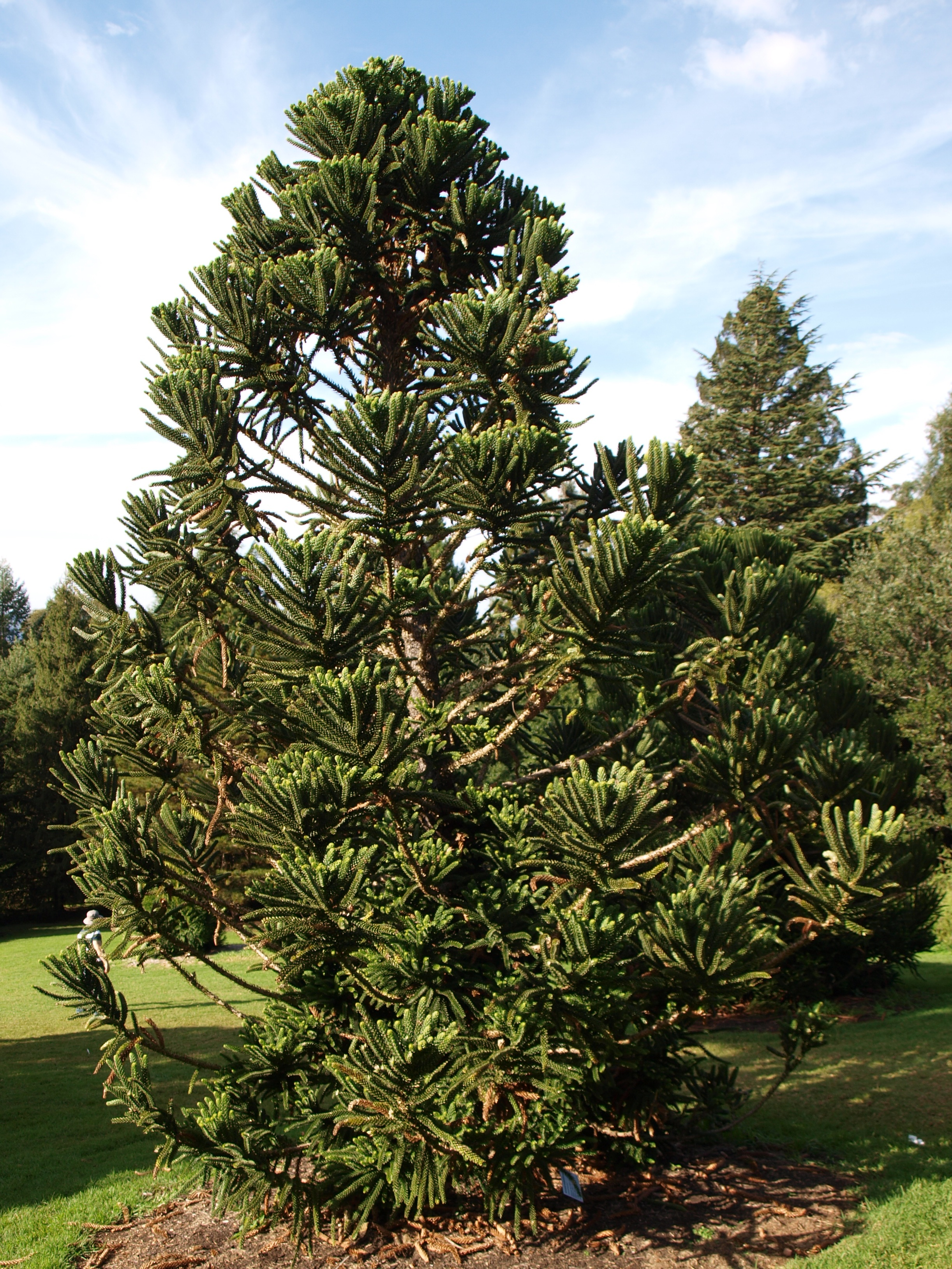 Araucaria humboldtensis in Blue Mountains Botanic Garden